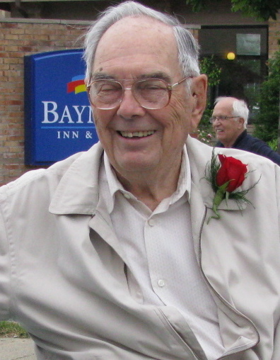 Senator Stabenow marched in the Cereal Festival parade. She stopped to say hello to Russ Mawby, a leader at the Kellogg Foundation. He developed the Michigan Agricultural Leadership Program, which became a model for the national rural leadership movement. This photograph is provided by the Office of U.S. Senator Debbie Stabenow.